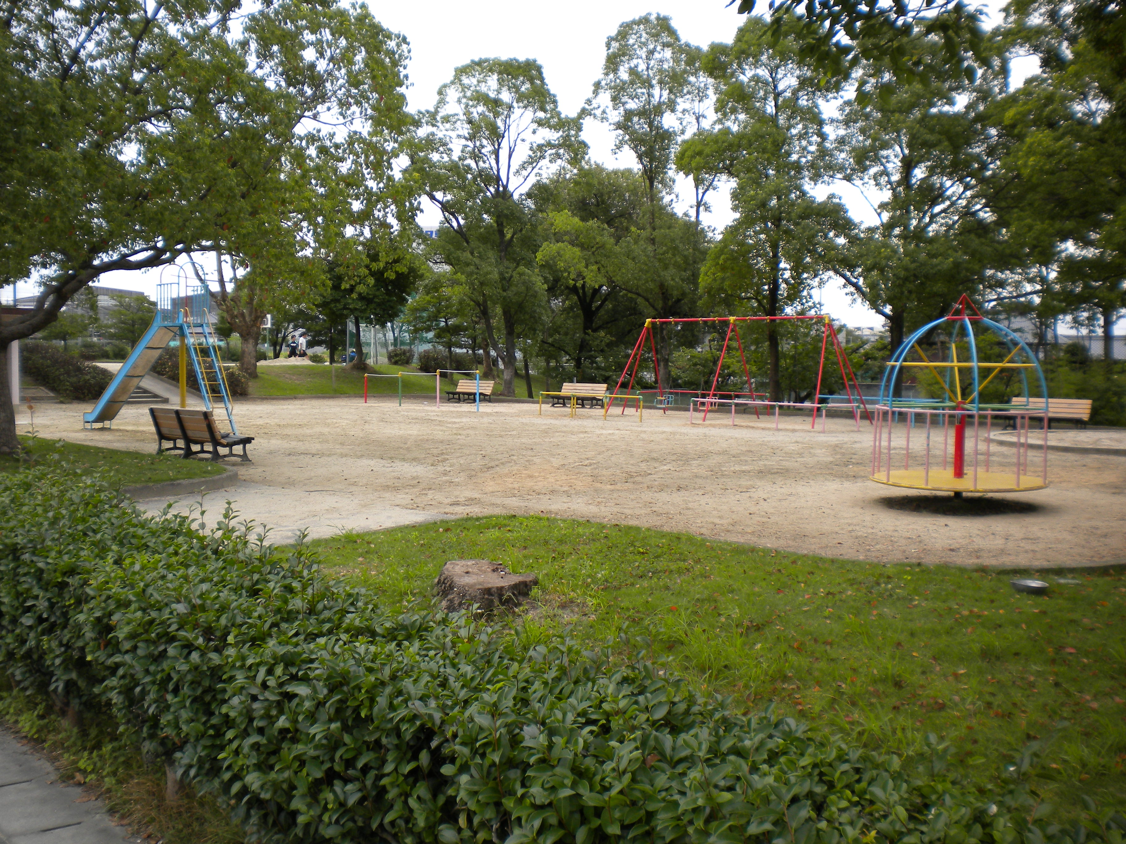 Imaoka Koen(Imaoka Park) in Kariya city